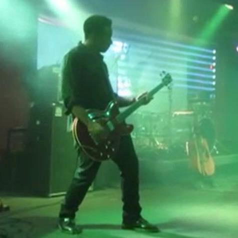 Morrisson K. performing with Red Trade